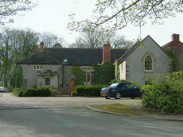 Apley residence. Buildings in a quiet cul-de-sac near Apley Castle